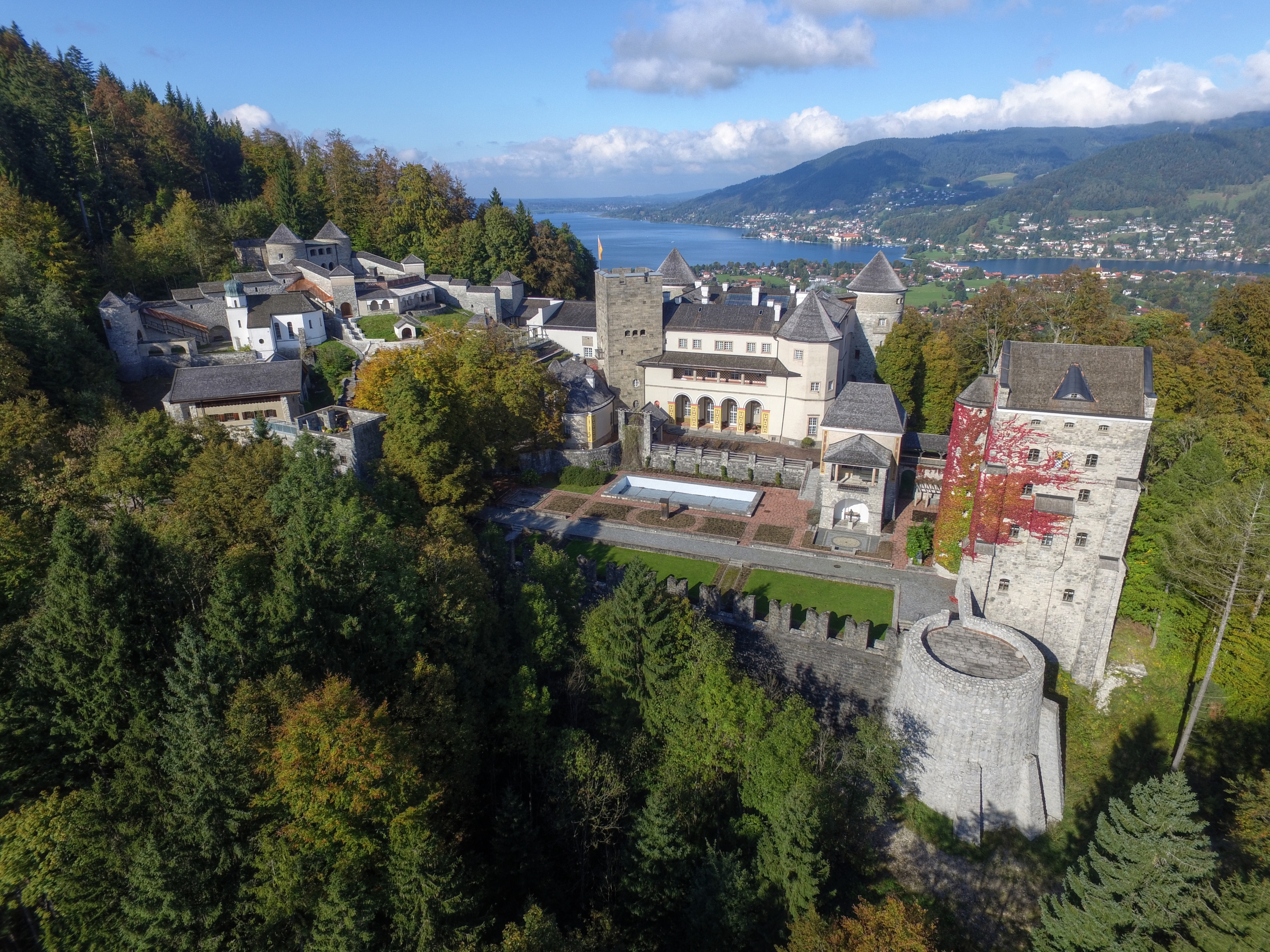 Schloss Ringberg (Ringberg Castle) aerial view with lake Tegernsee in the background.